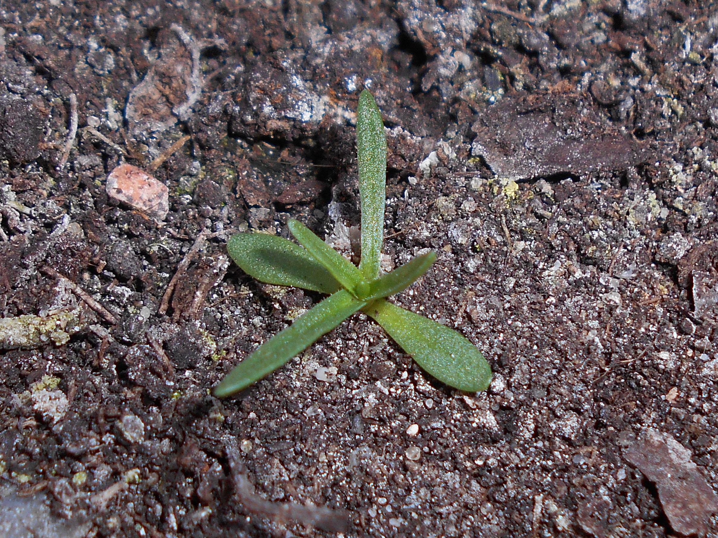 Armeria maritima seedling.